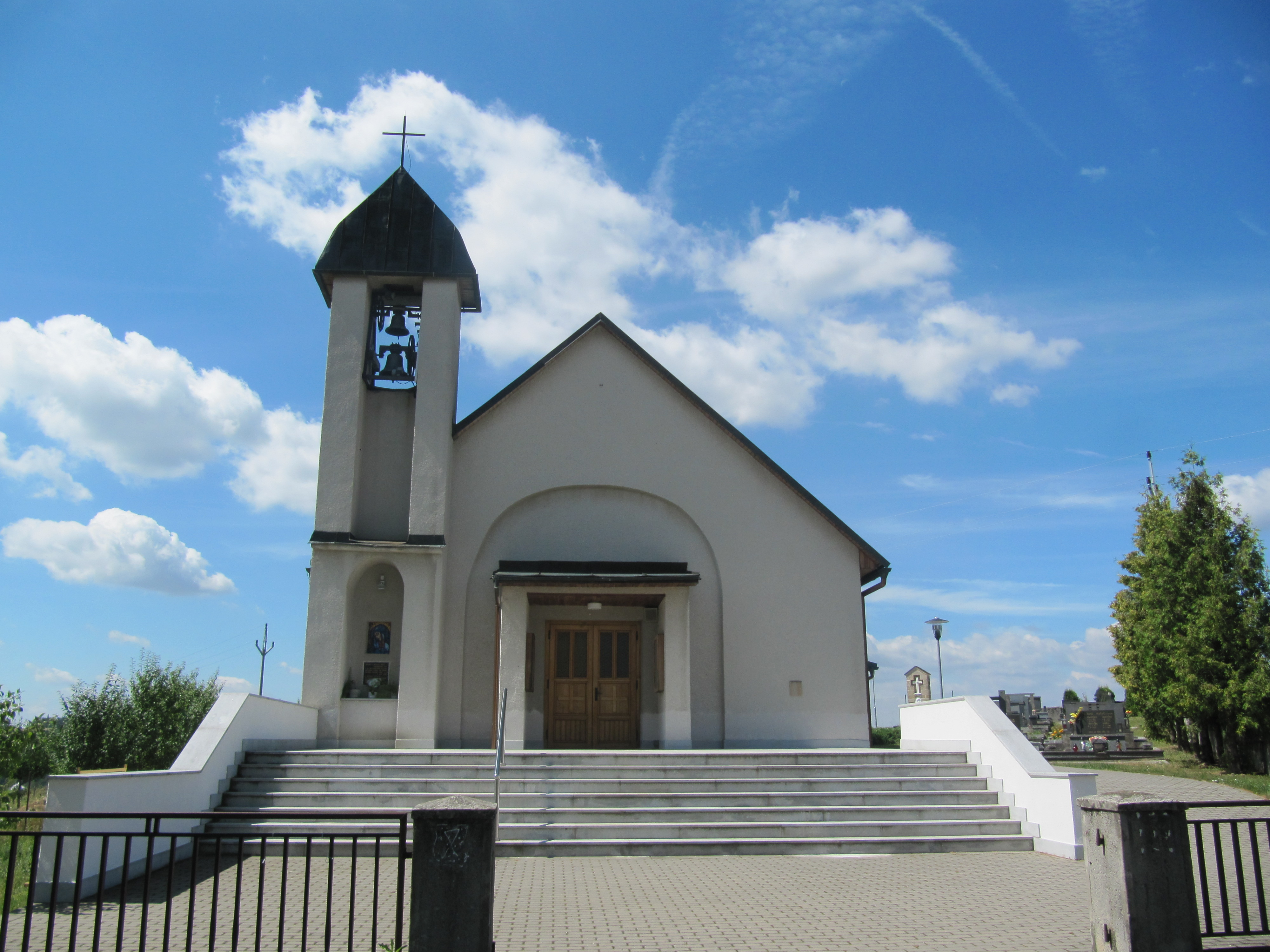 Drnovice, Zlín District, Czech Republic. Church of St. Agnes Czech.